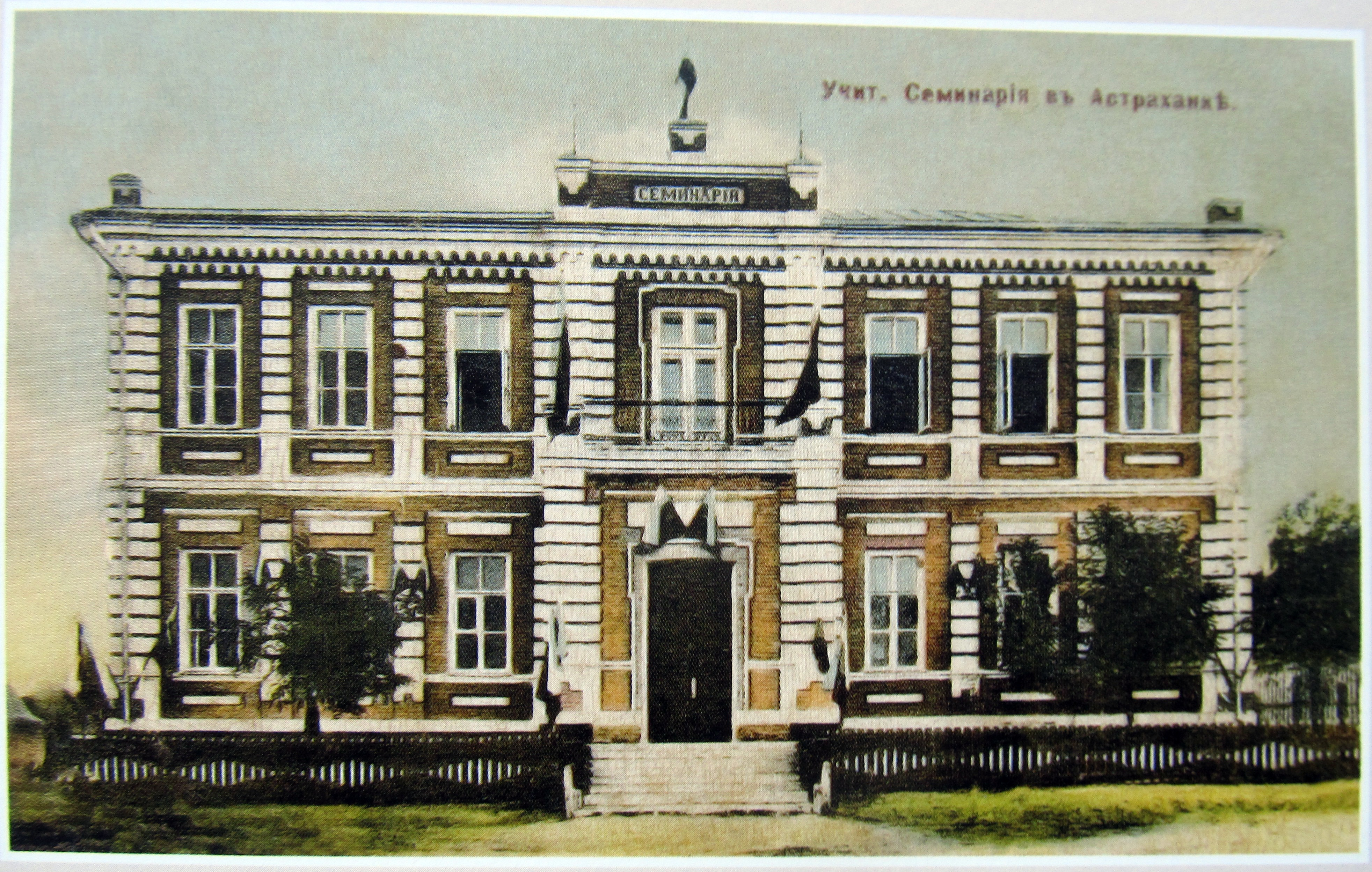 Seminary in Astrahanka (Melitopolskyy Raion, Zaporizhia Oblast, Ukraine). Postcard. Early 20th century.